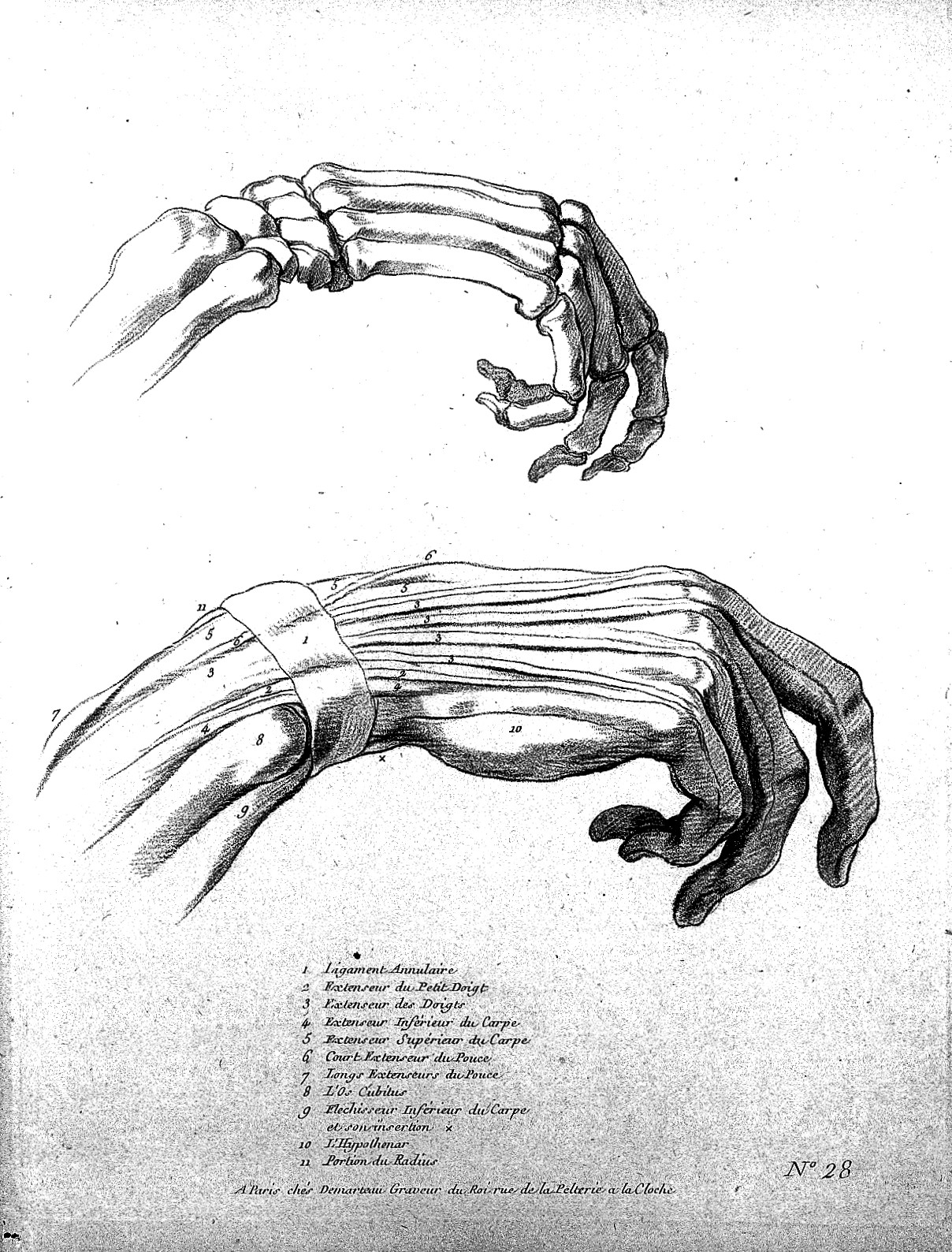 Plate showing hands. Rare Books Keywords: artistic training; Anatomy; Gilles Demarteau